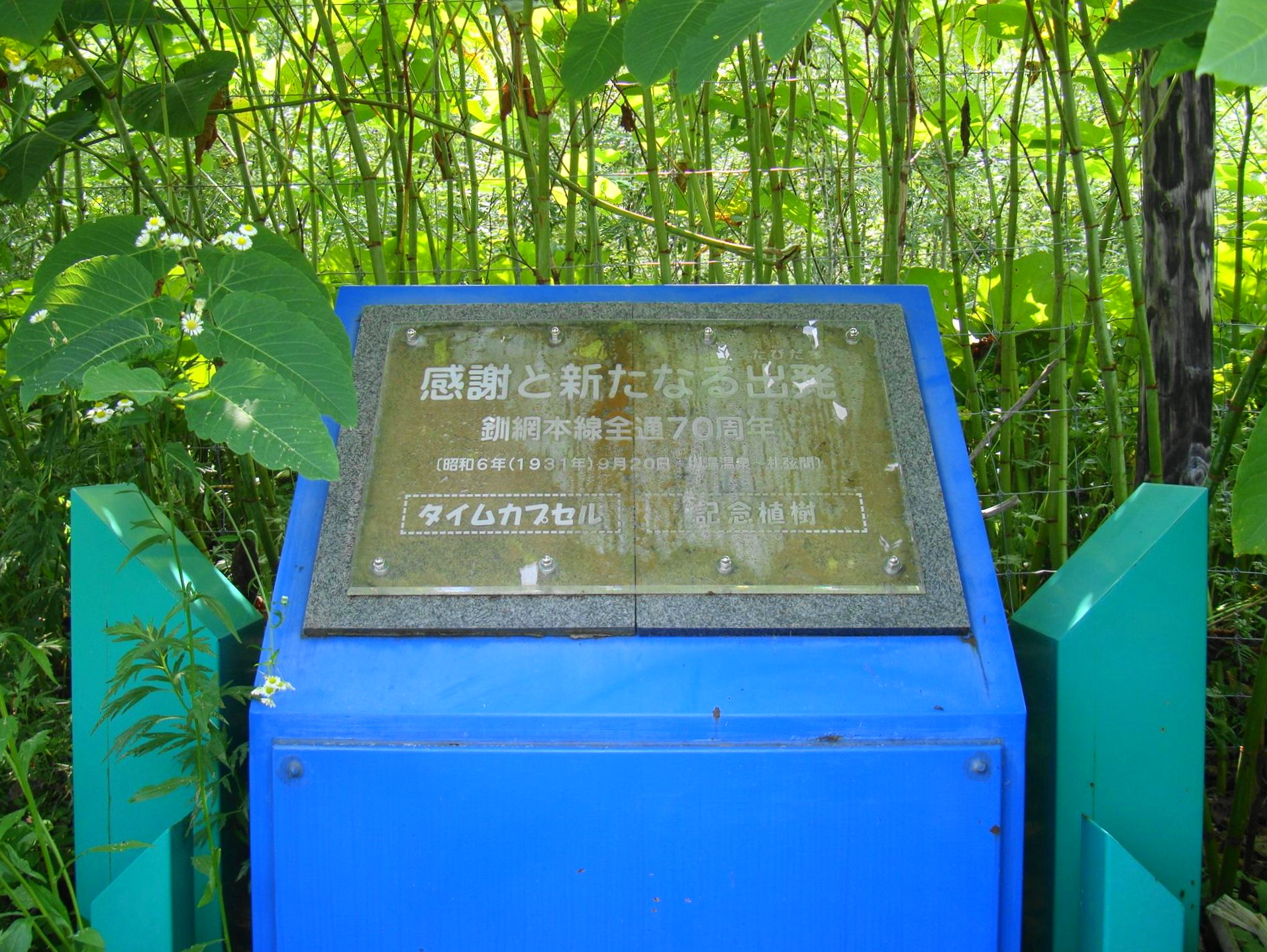 Senmō Main Line 70th monument